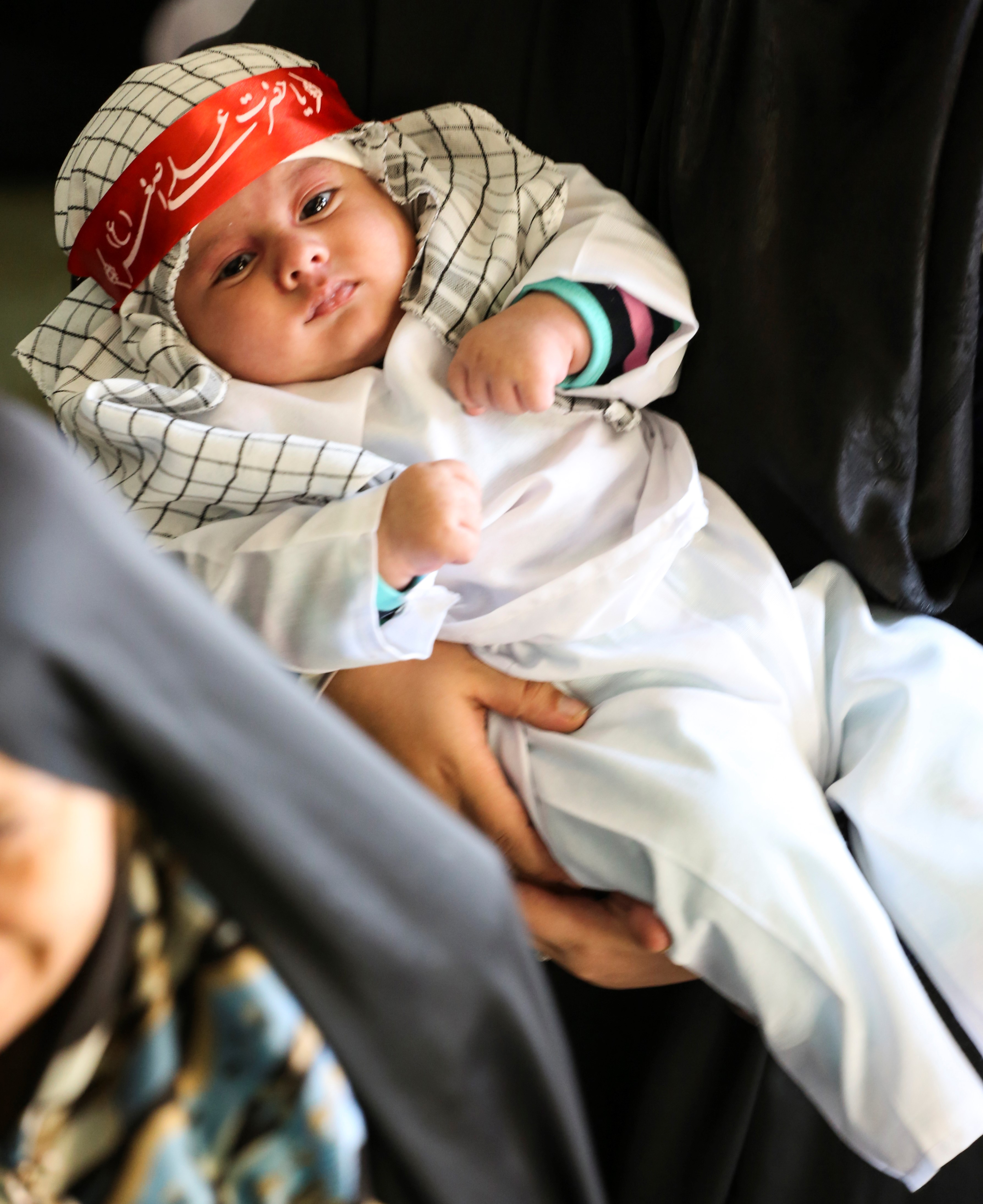 Baby in his mother's arms in Hosseini infancy conference in Iran